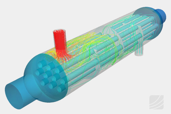 with the SimScale cloud-based CAE platform.